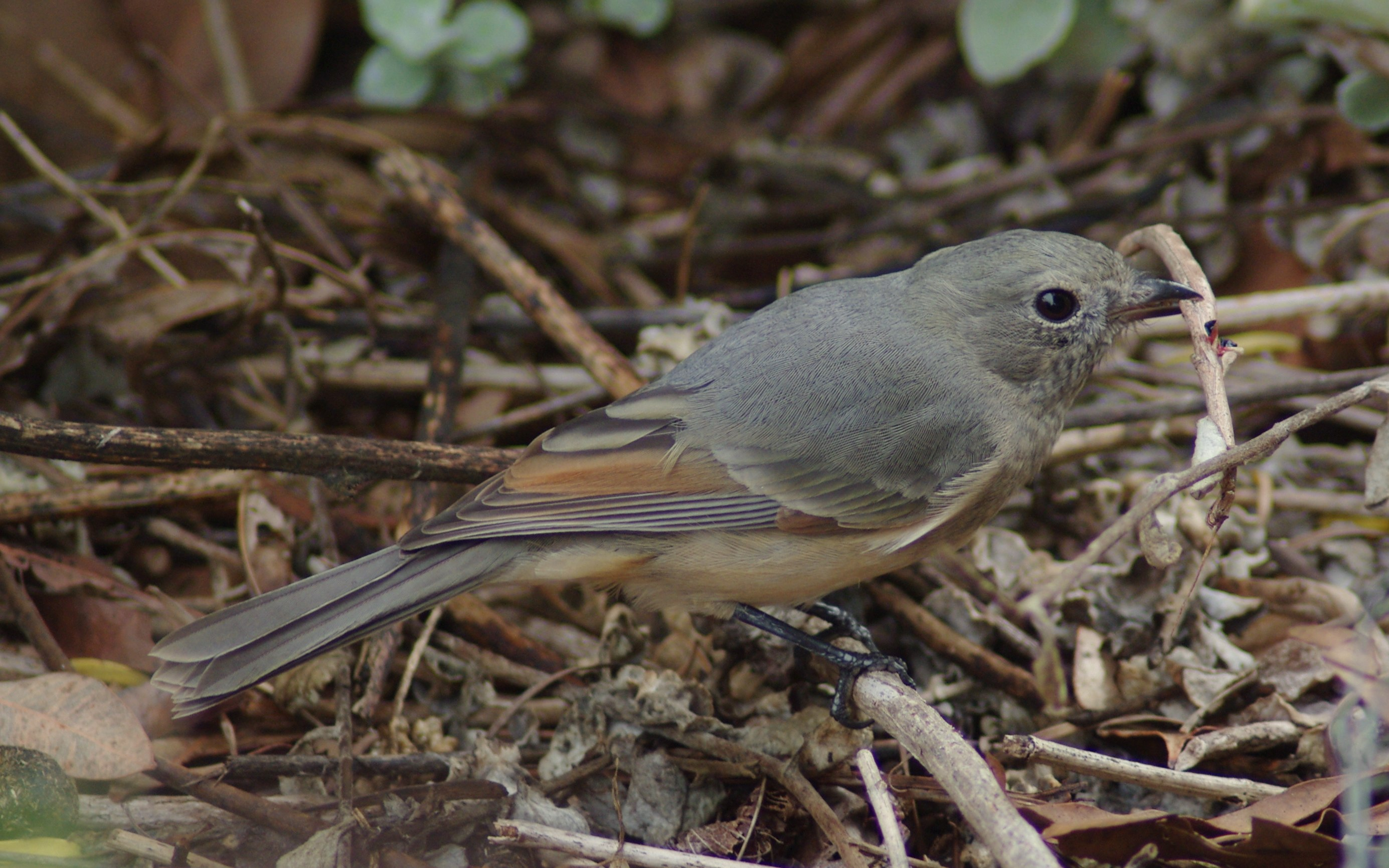 A juvenile Australian Golden Whistler at Wollery, Denmark, Western Australia, Australia. It retains some juvenile brown feathers in its wings.